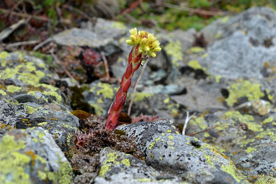 Raska Municipality - Kopaonik